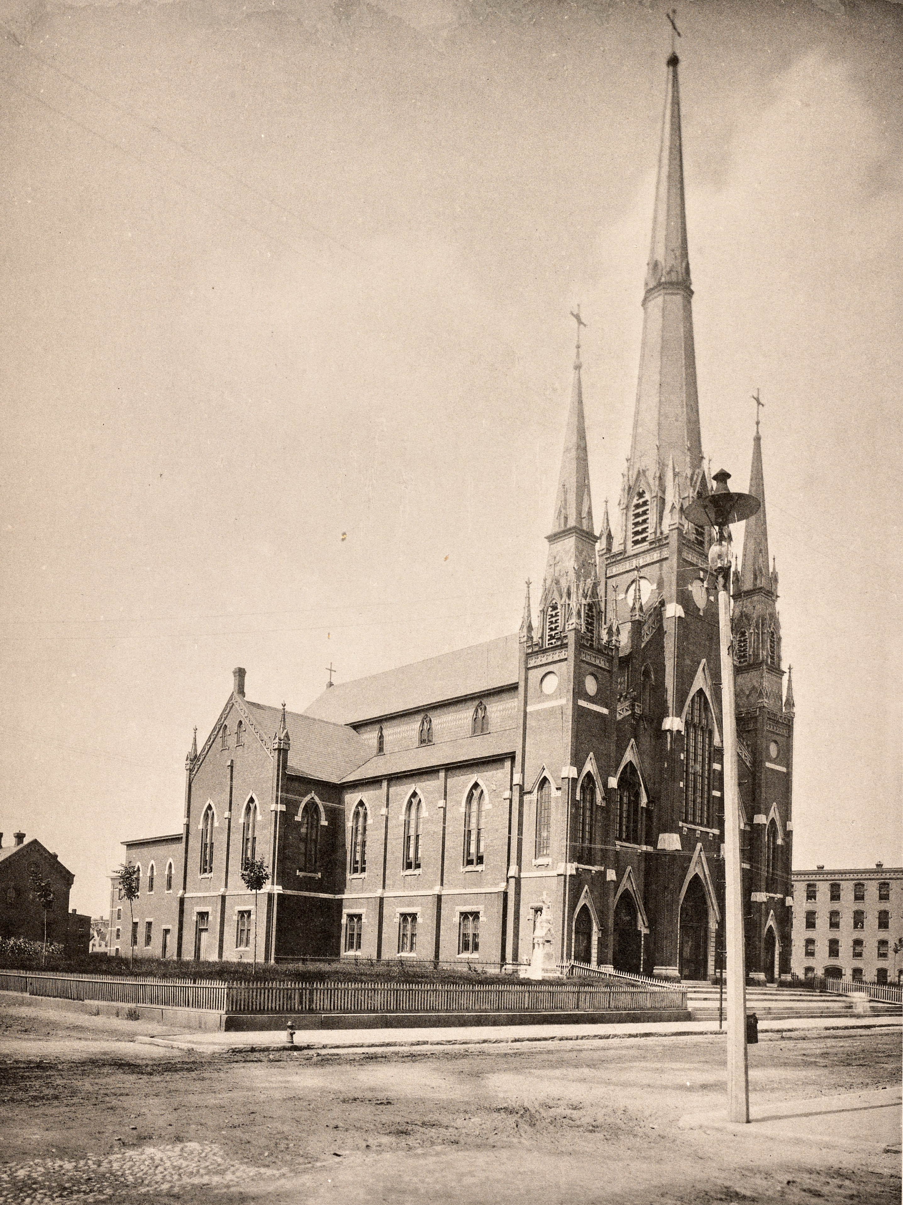 The Church of the Precious Blood, built on the site of the Precious Blood Church fire.